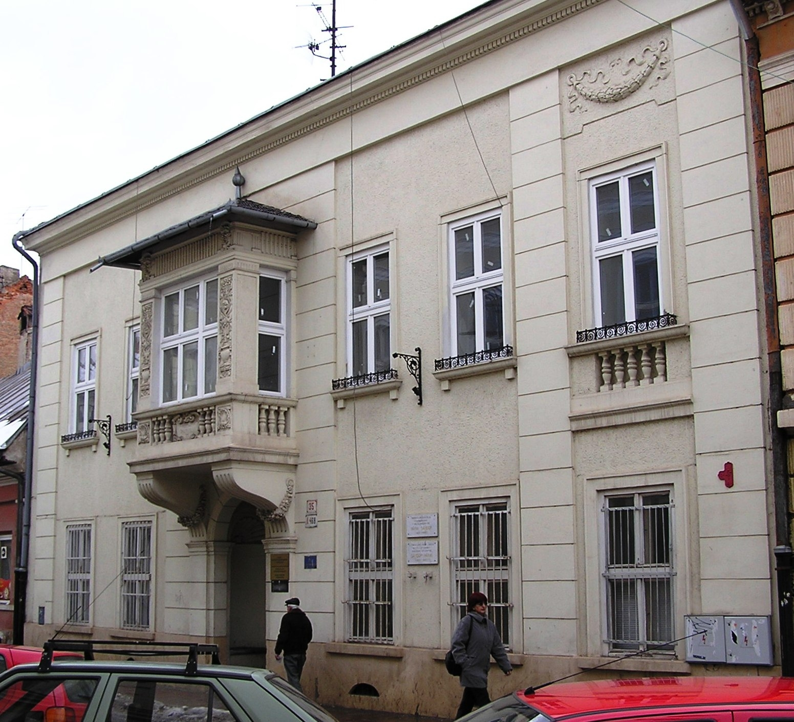 Sándor Márai and Géza Radványi's Memorial Birth House, 35 Mäsiarska Street, Kosice, Slovakia